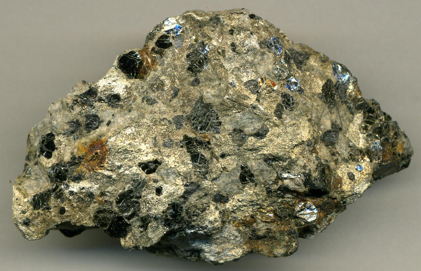 Okaite from Oka Carbonatite Complex, Early Cretaceous; Oka Niobium Mine, Quebec, Canada. Okaite is a feldspathoidal ultramafic igneous rock composed of nepheline, melilite, biotite mica, plus minor accessory minerals.